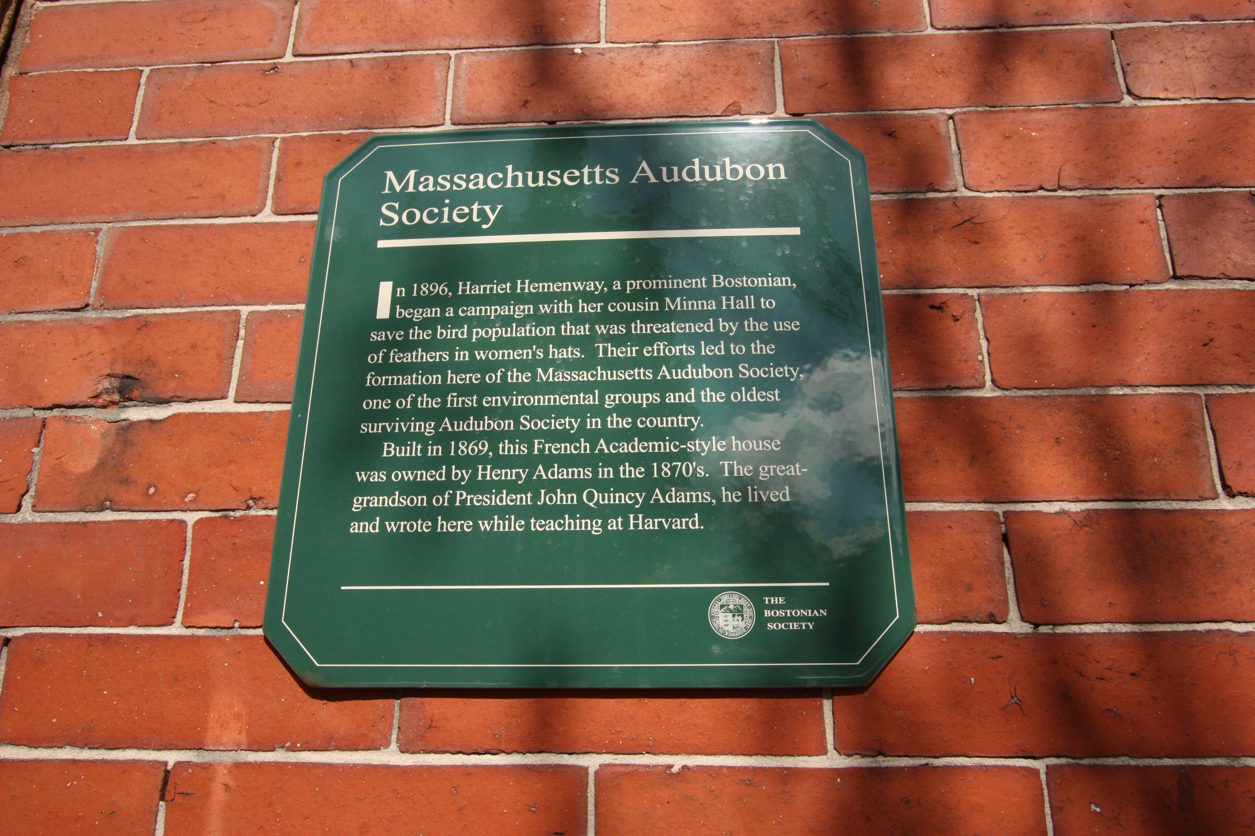 Sign for the Massachusetts Audubon Society. Part of the Wikipedia Takes Boston scavenger hunt.